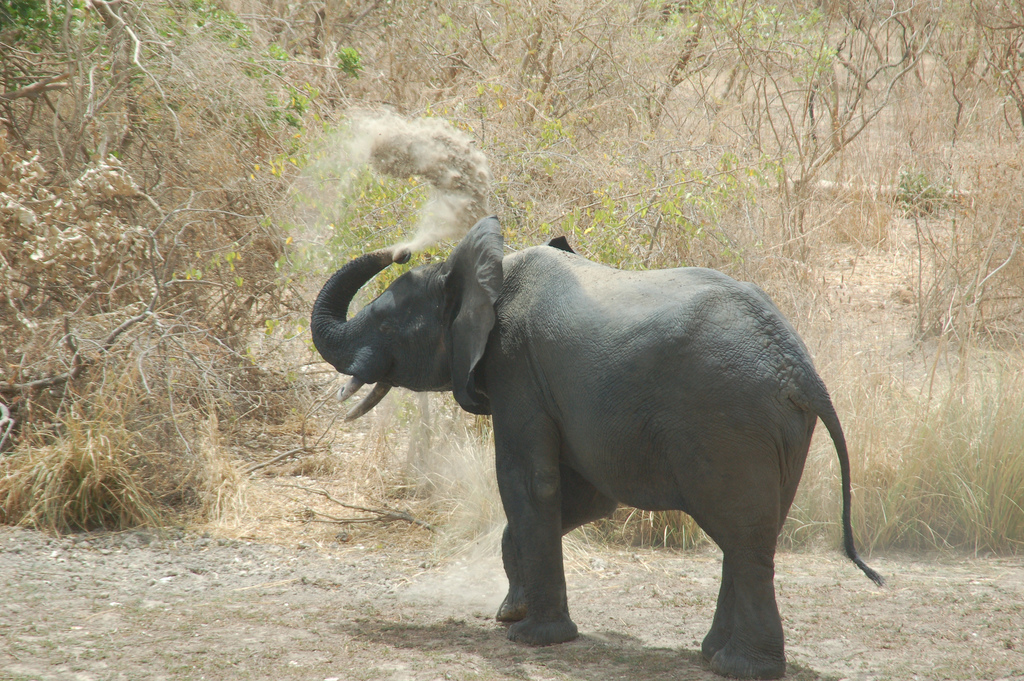 Elephant photographed in the Niger section of the Parc W du Niger complex of protected areas.